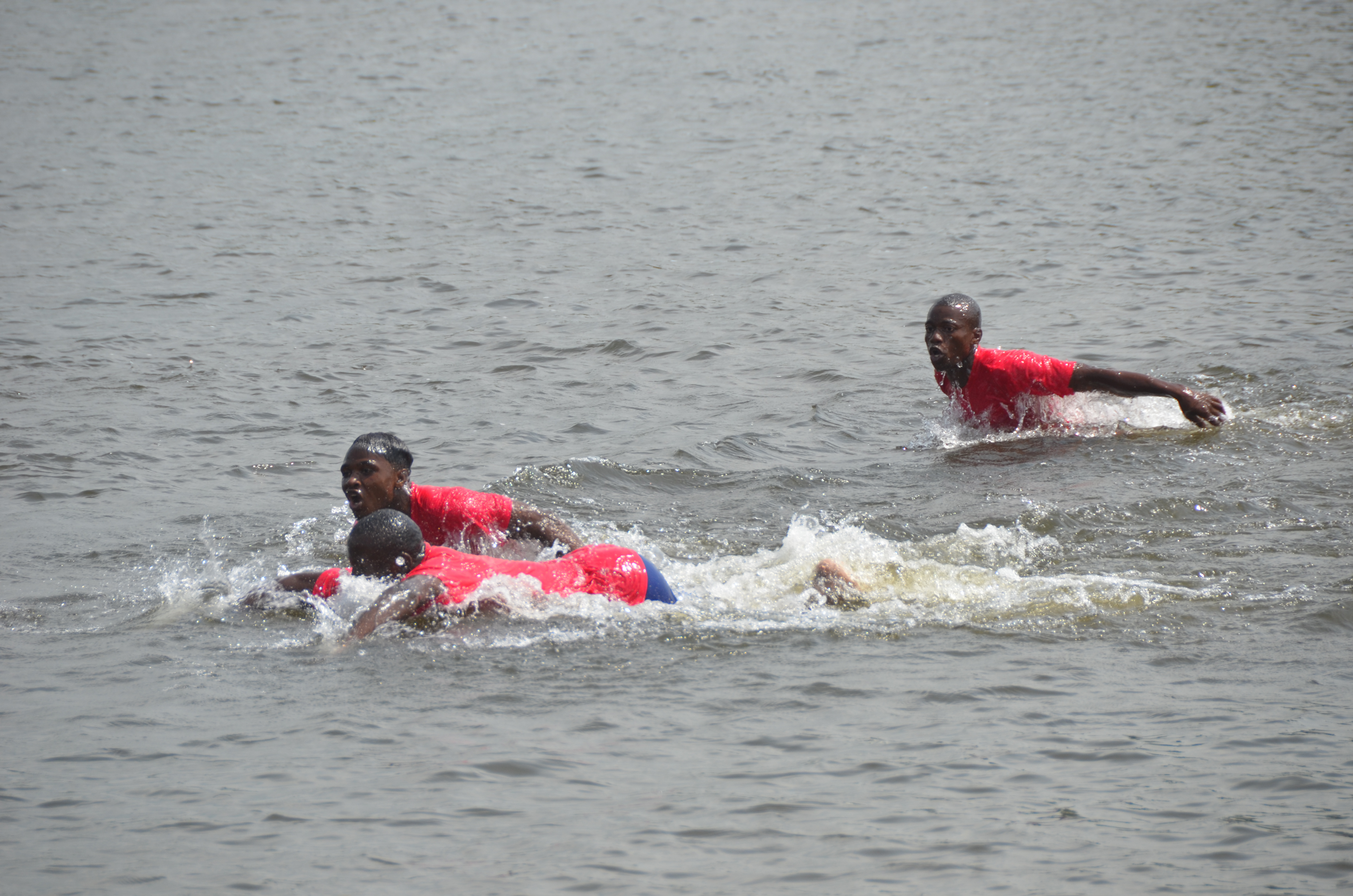 This is an image with the theme "Play" from: Cameroon